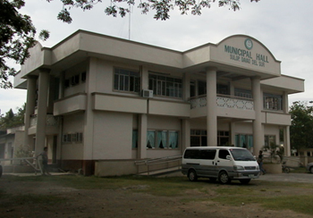 Municipal hall,Sulop , Davao del Sur, Filippinene